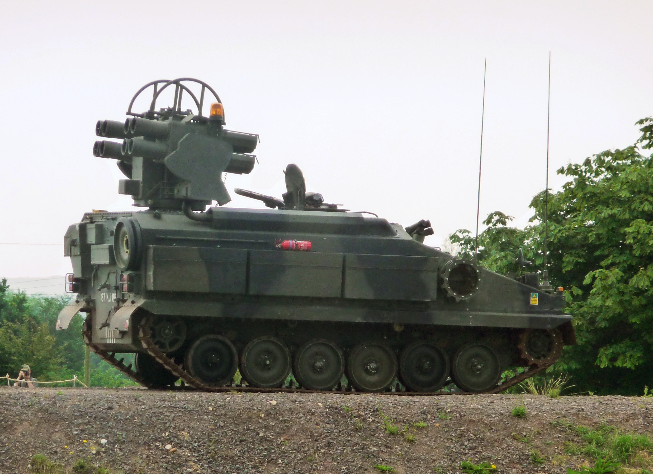 A Alvis Stormer at the Tankfest 2009.